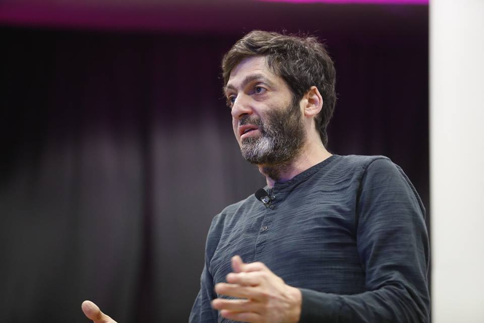 Dan Ariely in January 2019